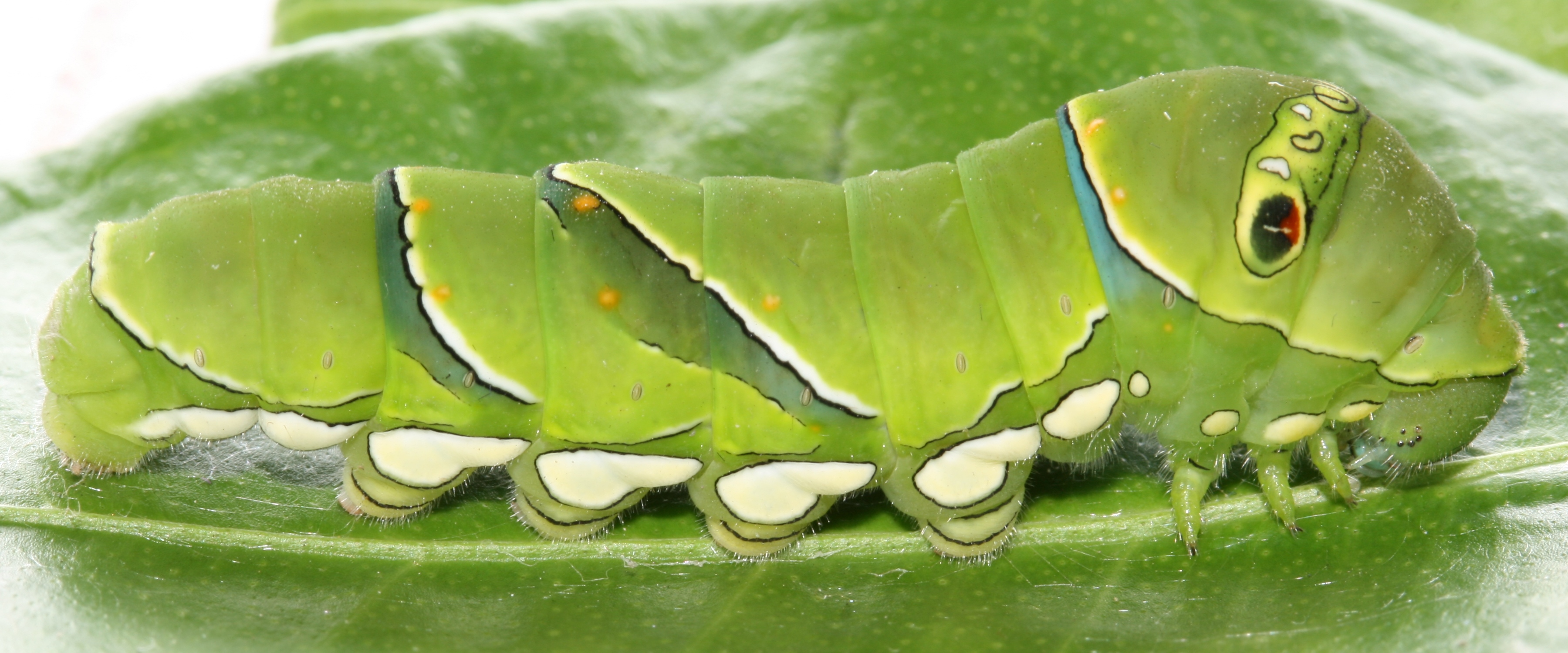 Caterpillar (larva) of Papilio xuthus, in Japan.